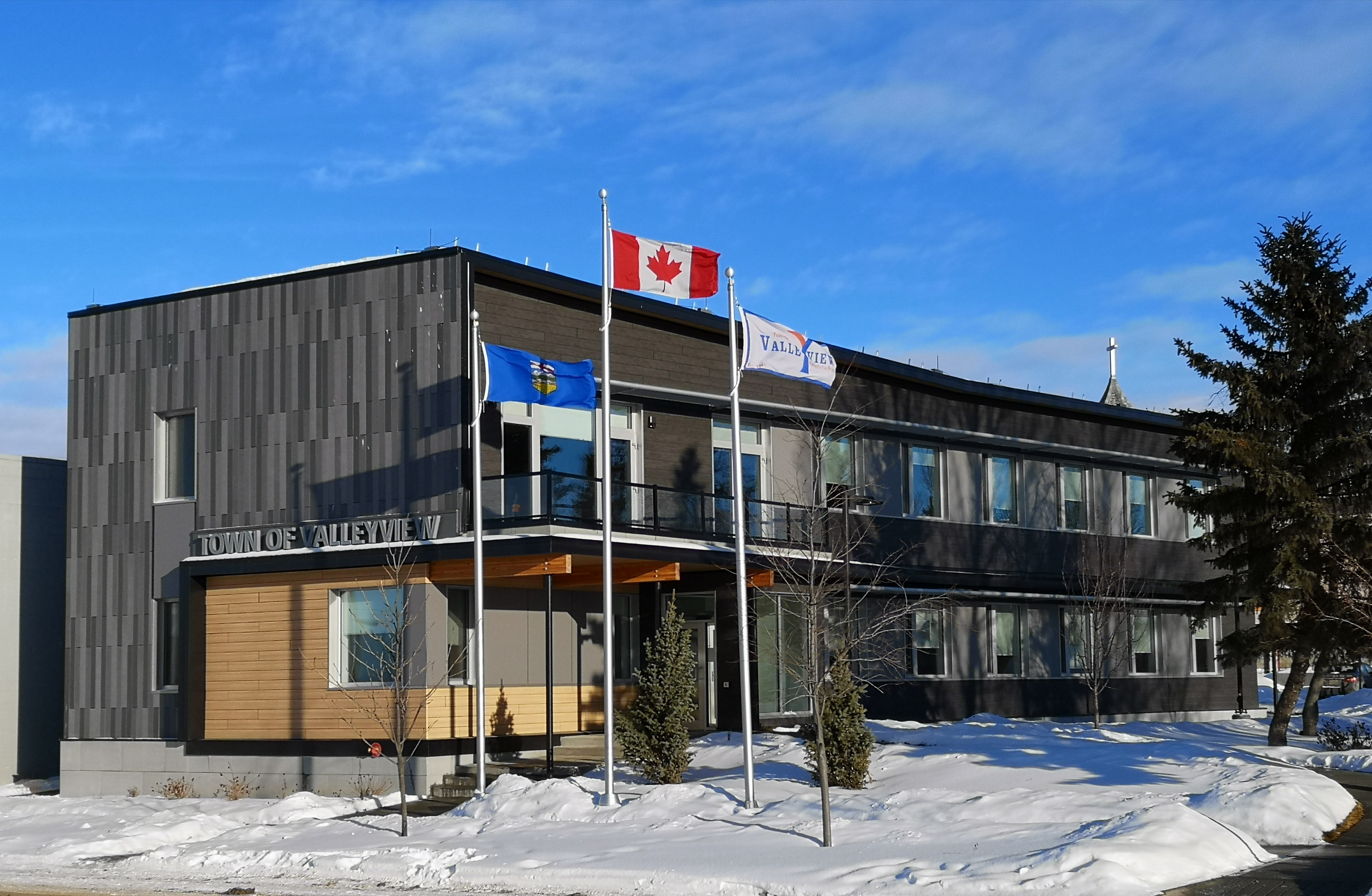 The administrative building for the Town of Valleyview. The office is designed to meet Passivhaus standards.